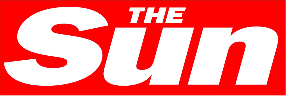 The Current logo of the Ukied Kingdom newspaper The Sun